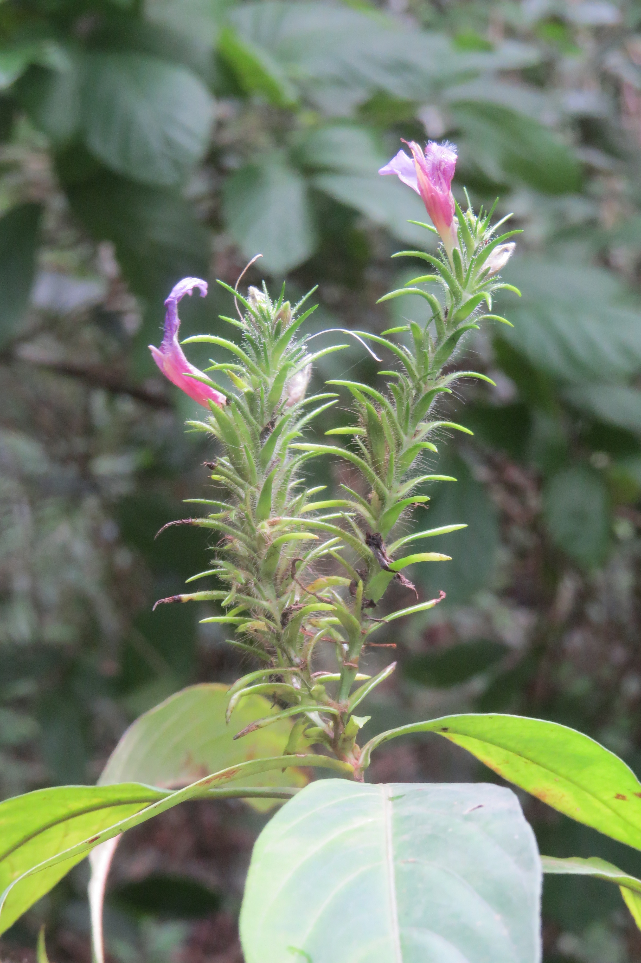 Photos from 2014 by Vinayaraj